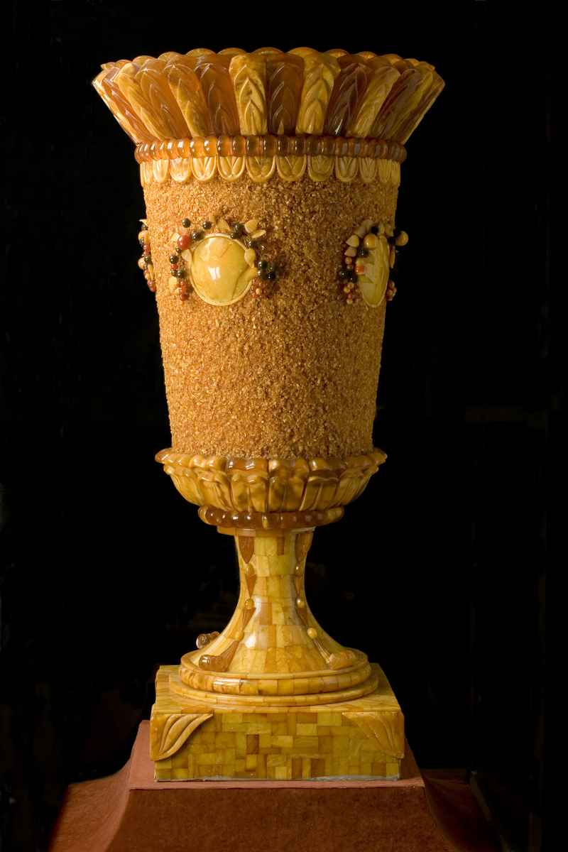 Vase "Abundance". 1954. Made by: V. Mityanin, A. Kvashnin and E. Lis and others jewellery makers of the Kaliningrad Amber Combine. Amber. Dimensions: 42 х 77 х 30 cm. Photo by A. Baranov. Kaliningrad Amber Museum collections